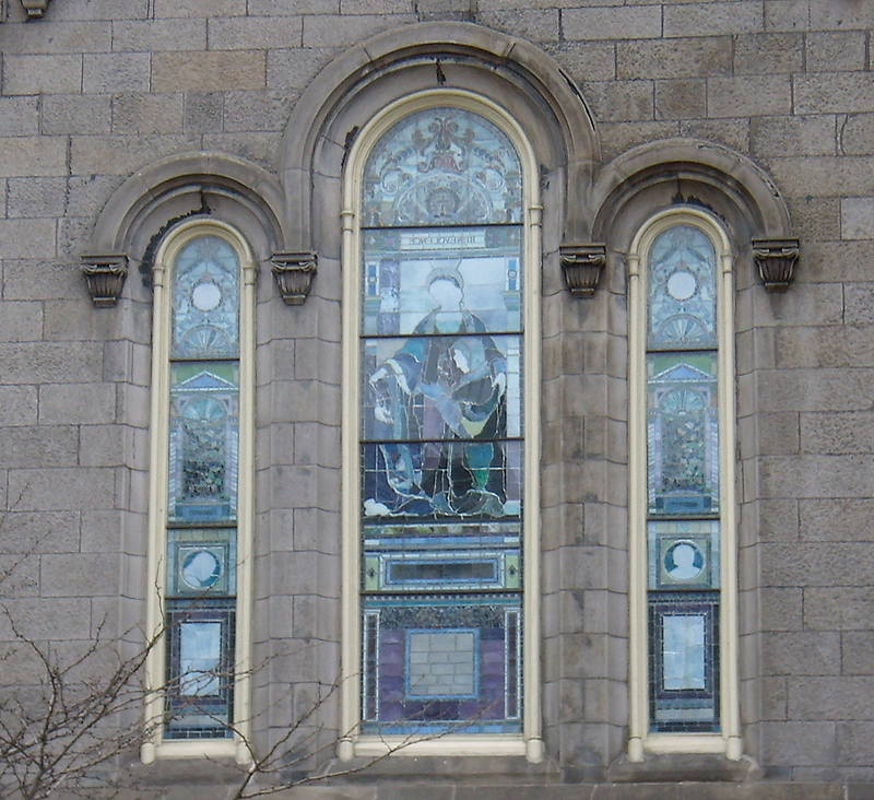 Stained glass windows of the Old Stone Church in downtown Cleveland, Ohio, in the United States. This window, titled "Benevolence", was donated by Cleveland industrialist Amasa Stone in 1885. It was designed and executed by John LaFarge.